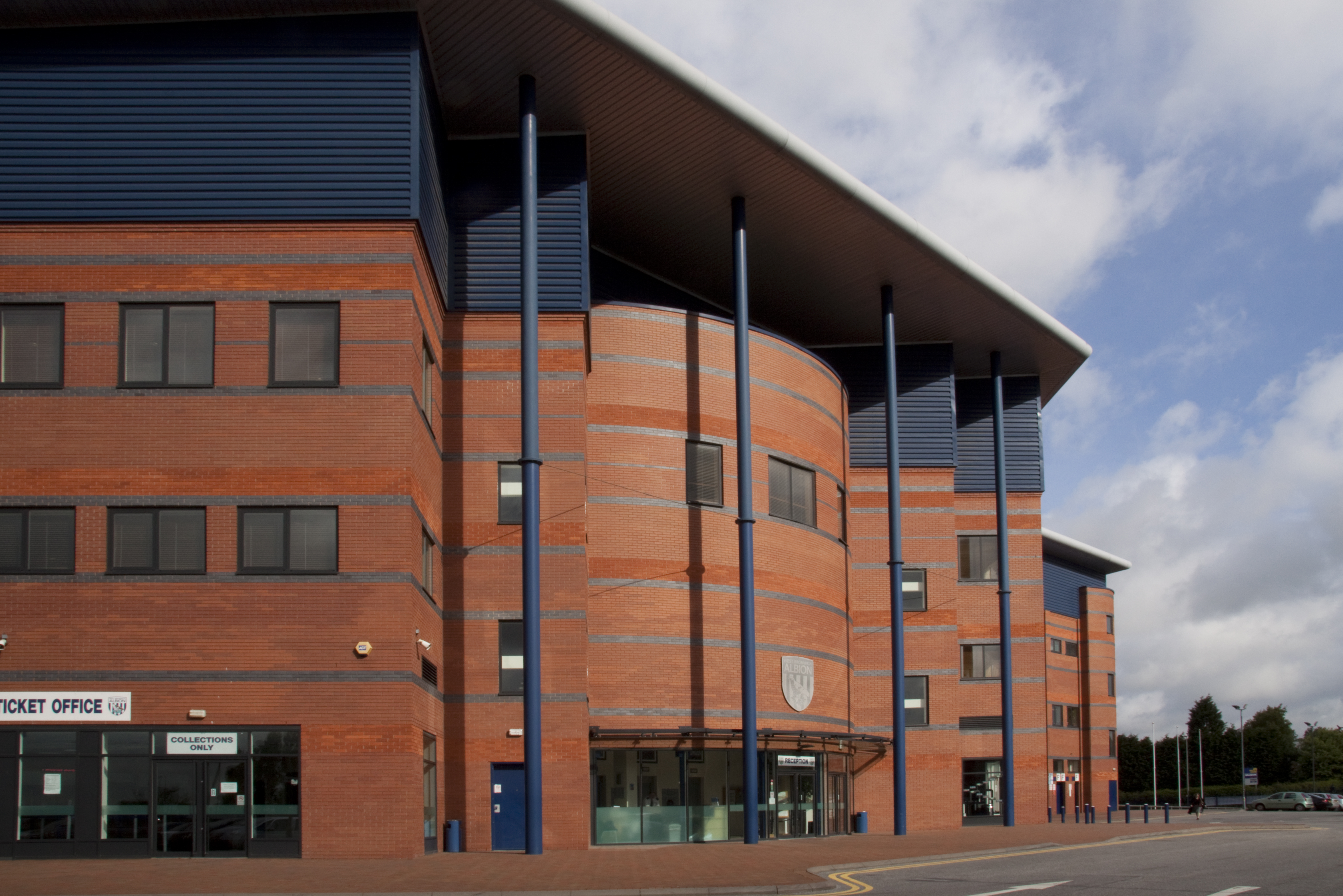 Exterior of The Hawthorns stadium